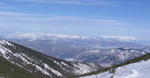 Picture of Macedonian mountains in winter